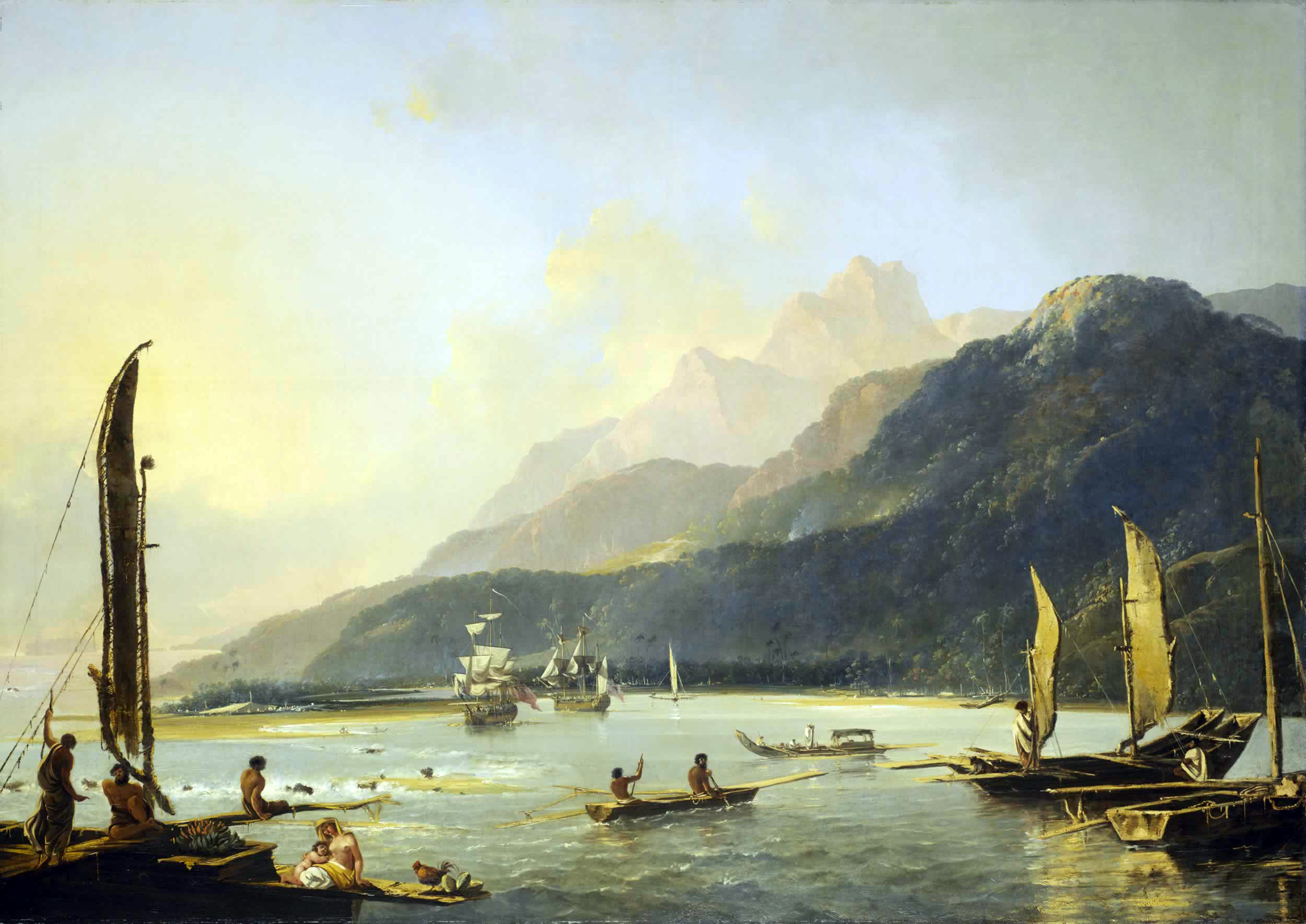 Resolution and Adventure with fishing craft in Matavai Bay, painted by William Hodges in 1776, shows the two ships of Commander James Cook's second voyage of exploration in the Pacific at anchor in Tahiti.